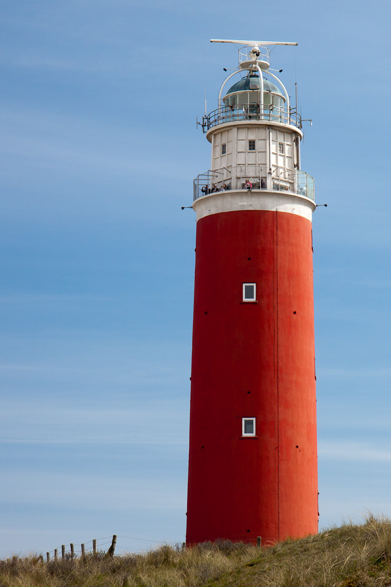 Texel lighthouse